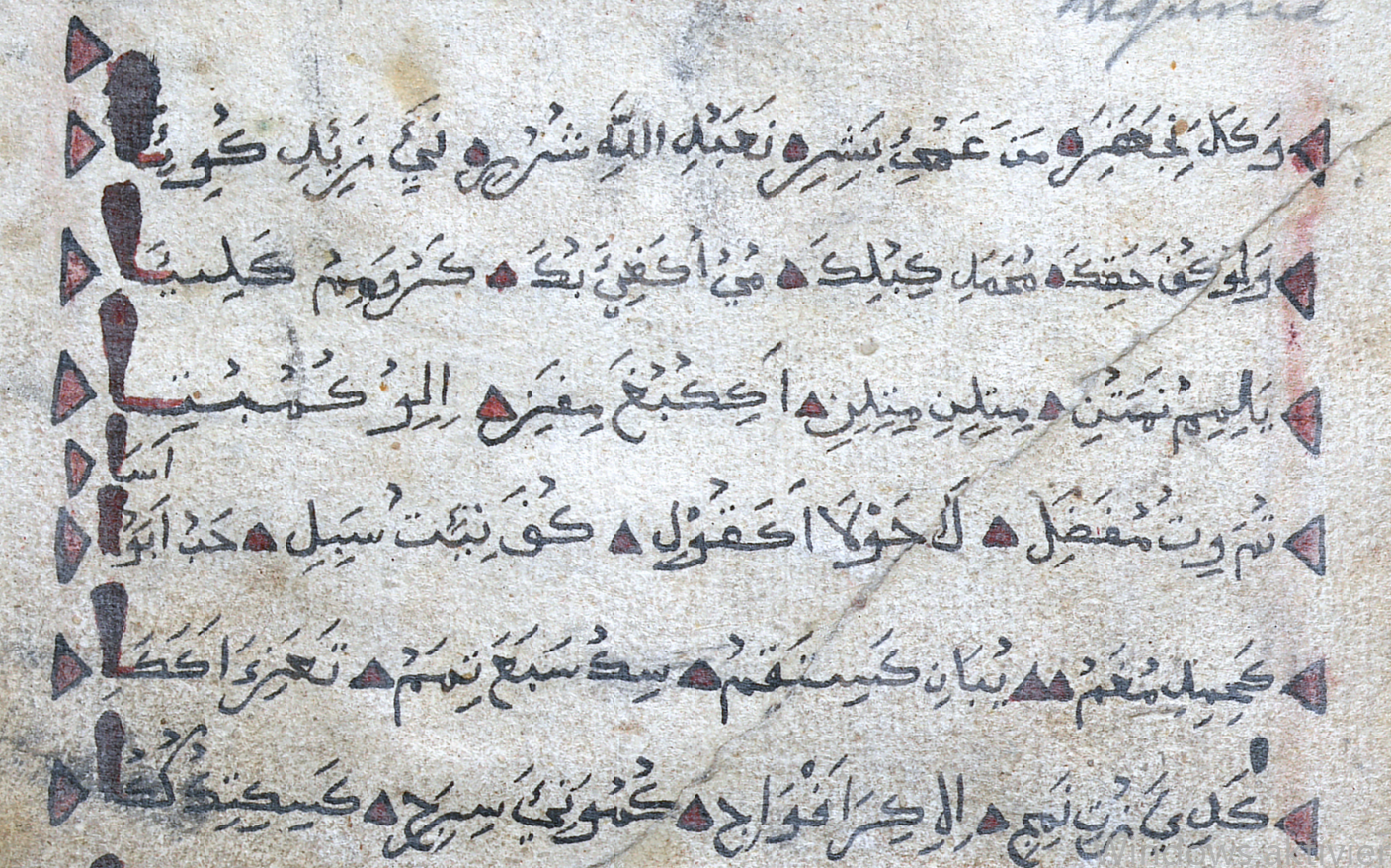 Swahili poem, written down in 19th century in Arabic cript, from SOAS collection Kiswahili: Utenzi wa Kiswahili, ulioandikwa kwa herufi za Kiarabu, mistari ya kwanza, kutoka mkusanyiko wa SOAS